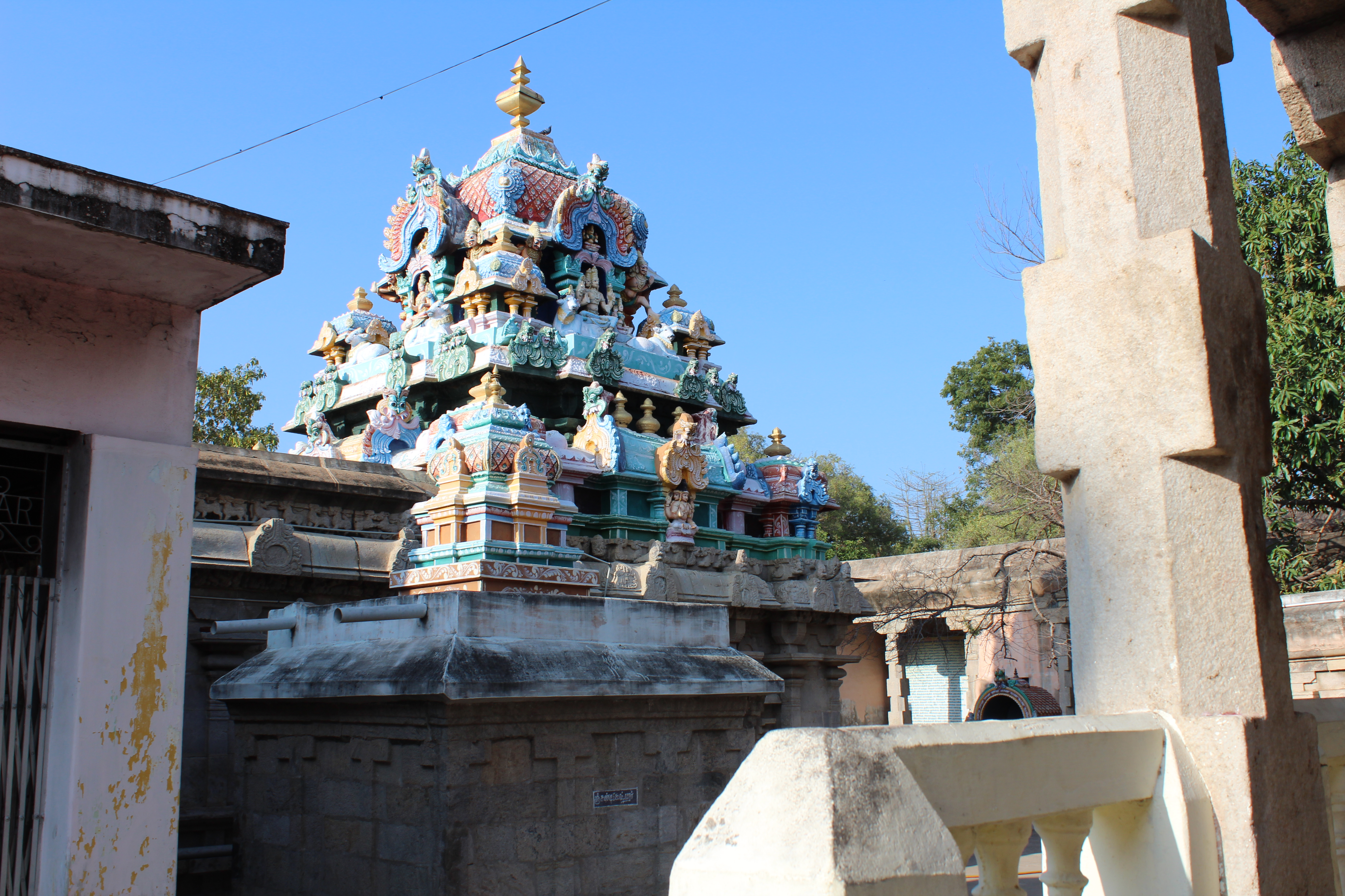 Neyyadiyappar temple, Thirupathur